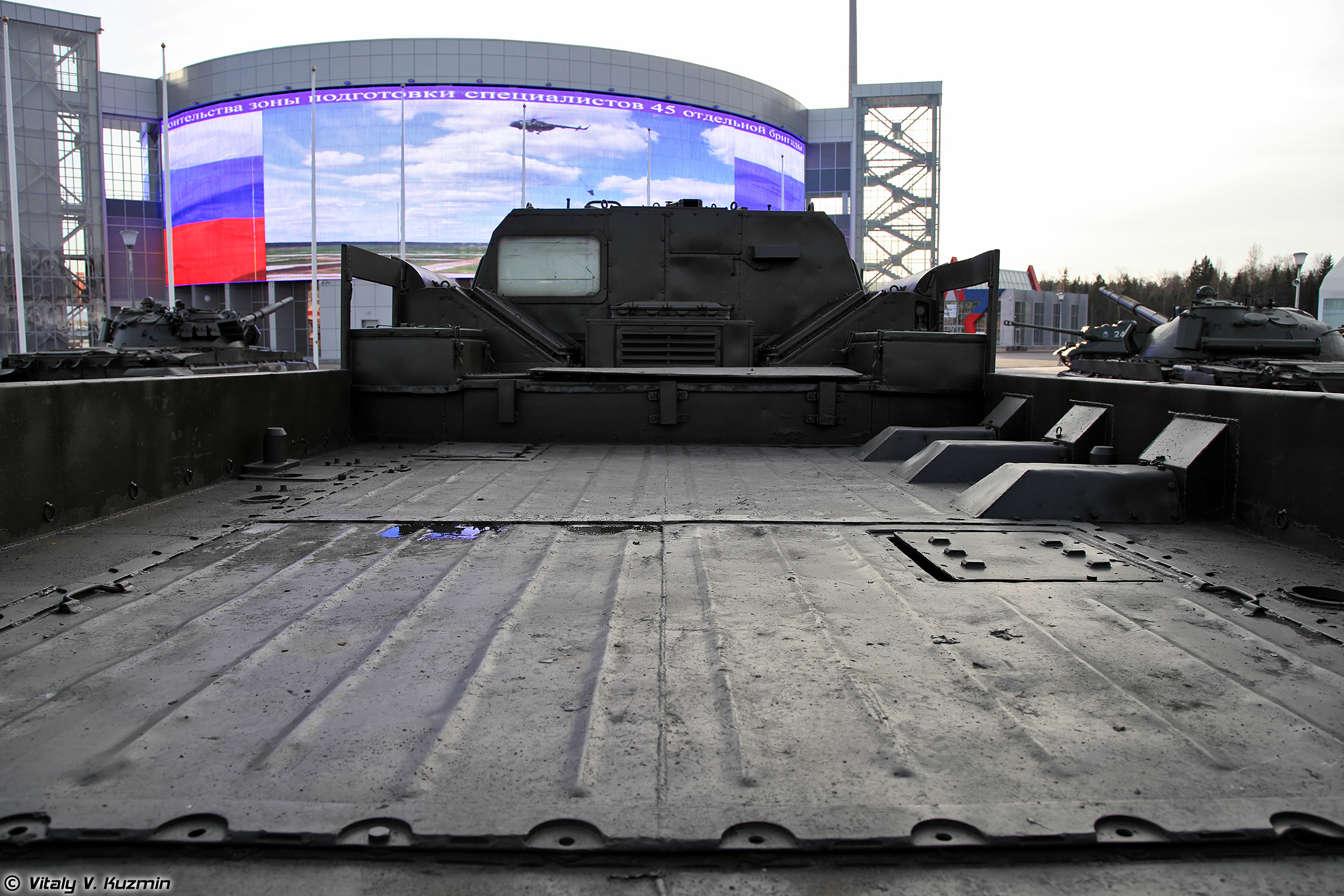 Транспортер-тягач МТ-Т (MT-T heavy transporter-tractor unit)